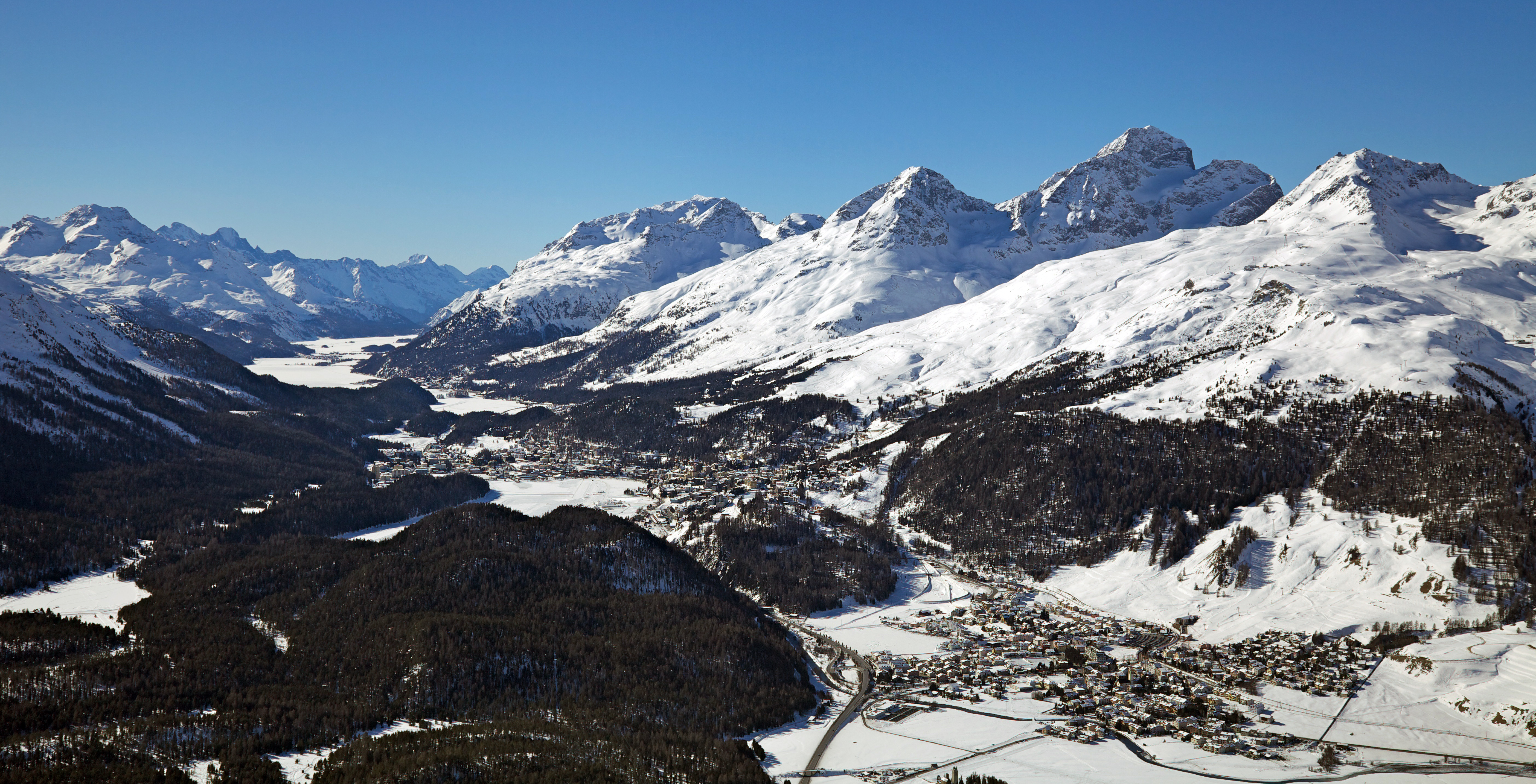 View of the High Engadin valley from Muragl, canton Grisons, Switzerland.